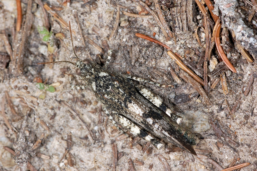 Oedipoda germanica, Fiescheralp, Switzerland